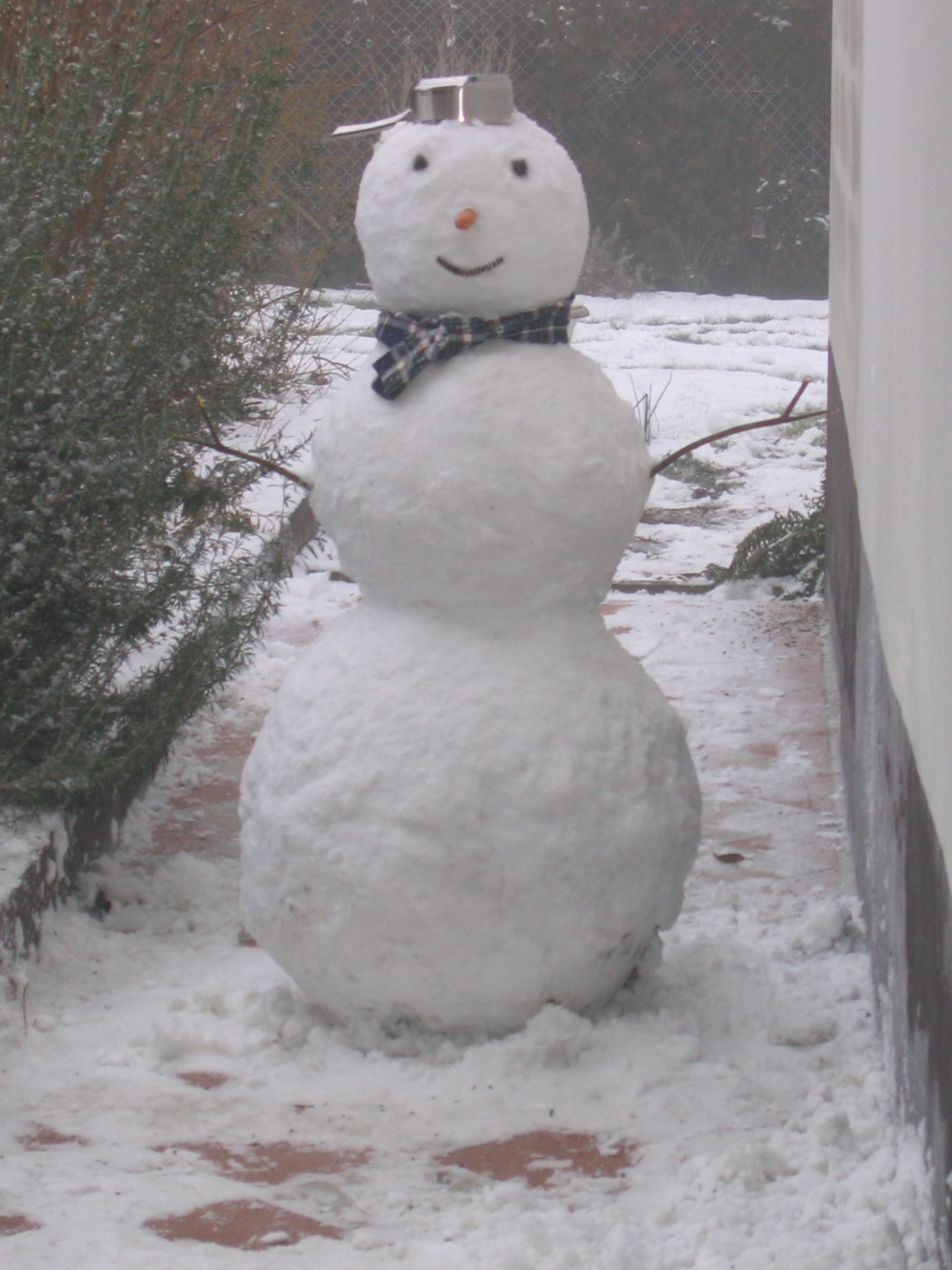 Snowman